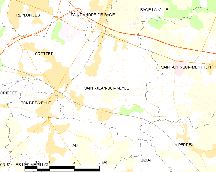 Map of French commune: Saint-Jean-sur-Veyle Map commune FR insee code 01365.png